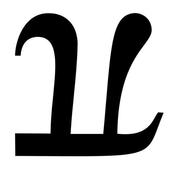 Image of the pi reversed